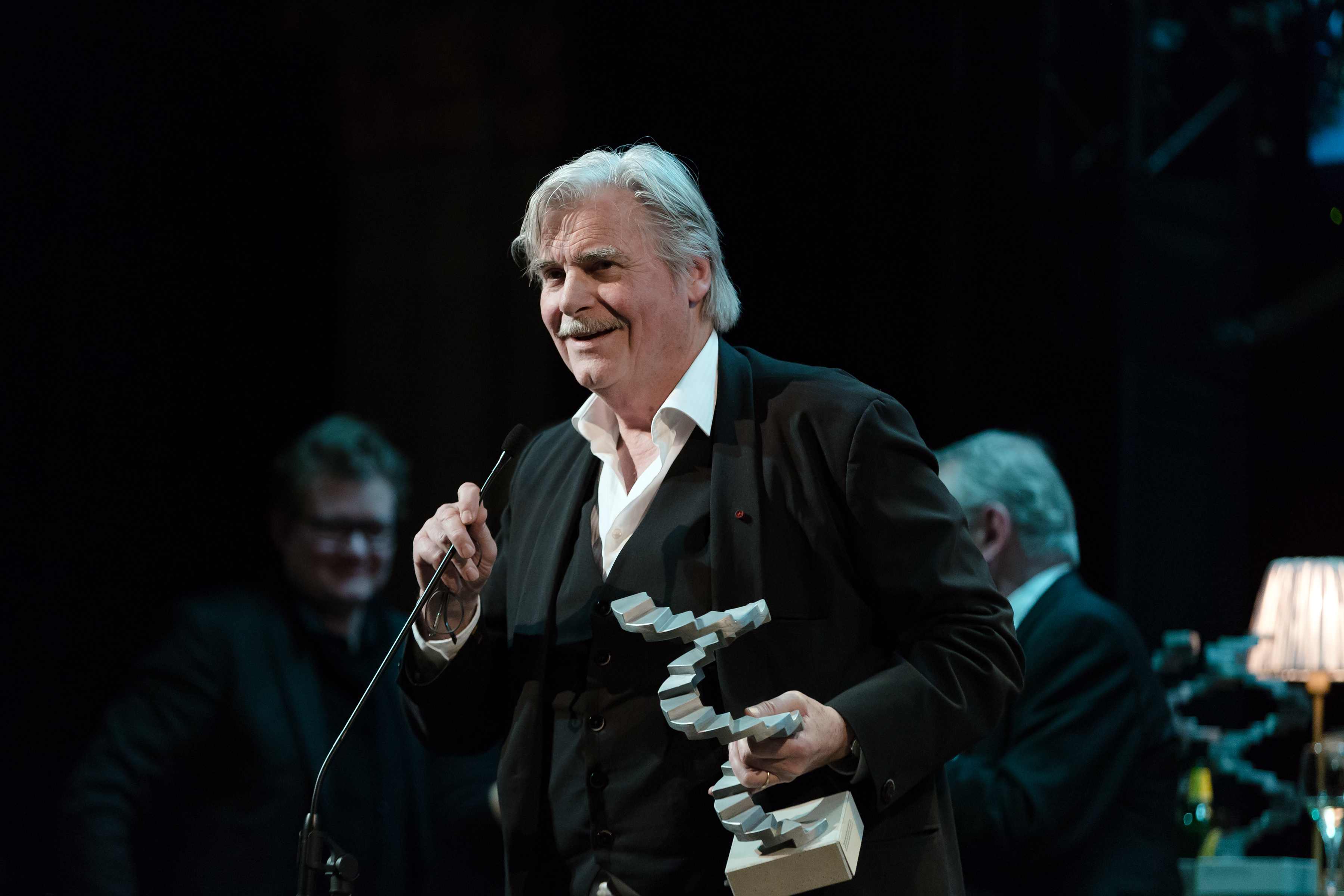 Austrian Film Awards 2017: Peter Simonischek, best male actor (Toni Erdmann); Rathaus, Vienna, Austria.